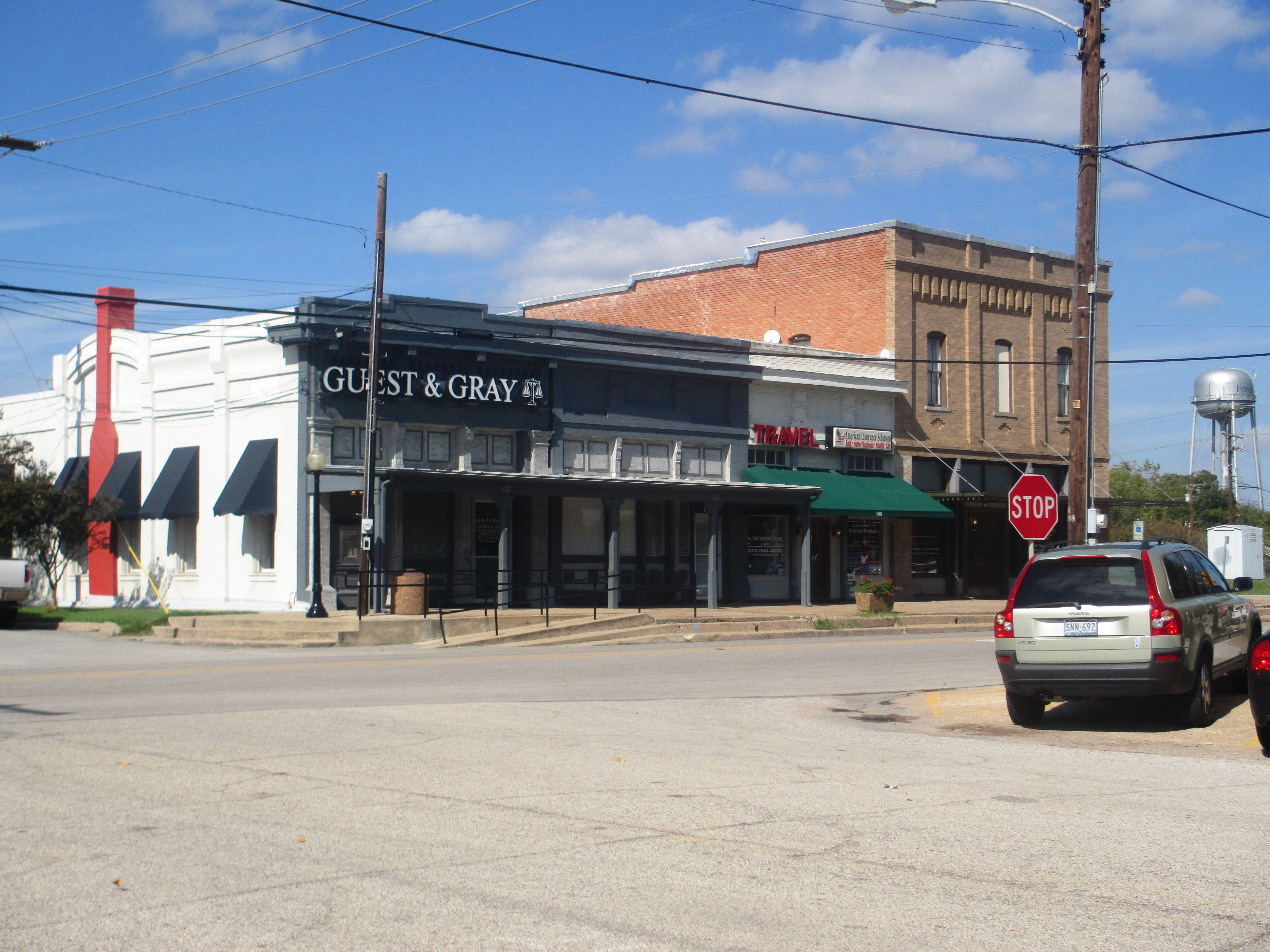 I took photo with Canon camera in Forney, TX.